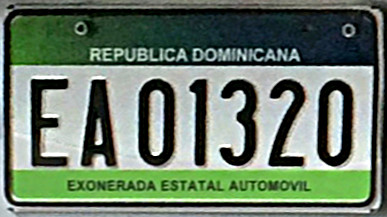 Rearl view of the 2014 Toyota Camry Hybrid (XV50) donated by the Japanese government for official government use in Santo Domingo, Dominican Republic.